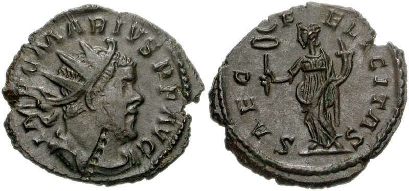 Marius. Romano-Gallic Emperor, AD 269. Antoninianus (20mm, 2.85 g). Mint I (Trier). 2nd emission. Radiate, draped, and cuirassed bust right / Felicitas standing left, holding caduceus and cornucopia. RIC V 10; Mairat 235; AGK 4b.